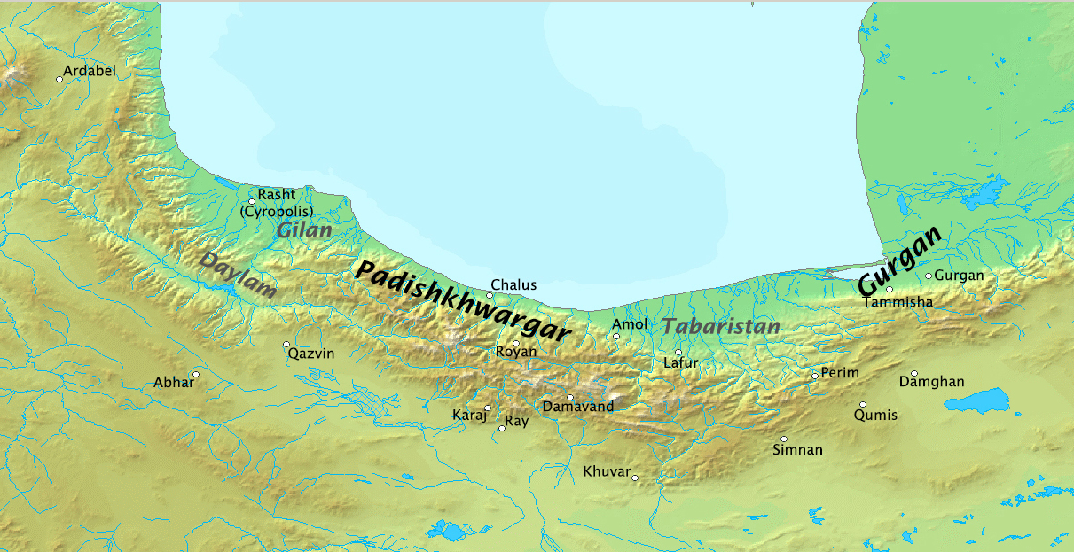 Map of northern Iran under the Sasanians. Mainly based on the Sasanian map in the Cambridge History of Iran (volume 3) and the map of northern Iran (vol 4). Map taken from DEMIS Mapserver, which is public domain, the rest is self-made.